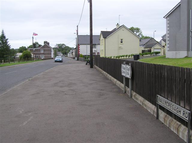 Ballycregagh Road, Clough Mills